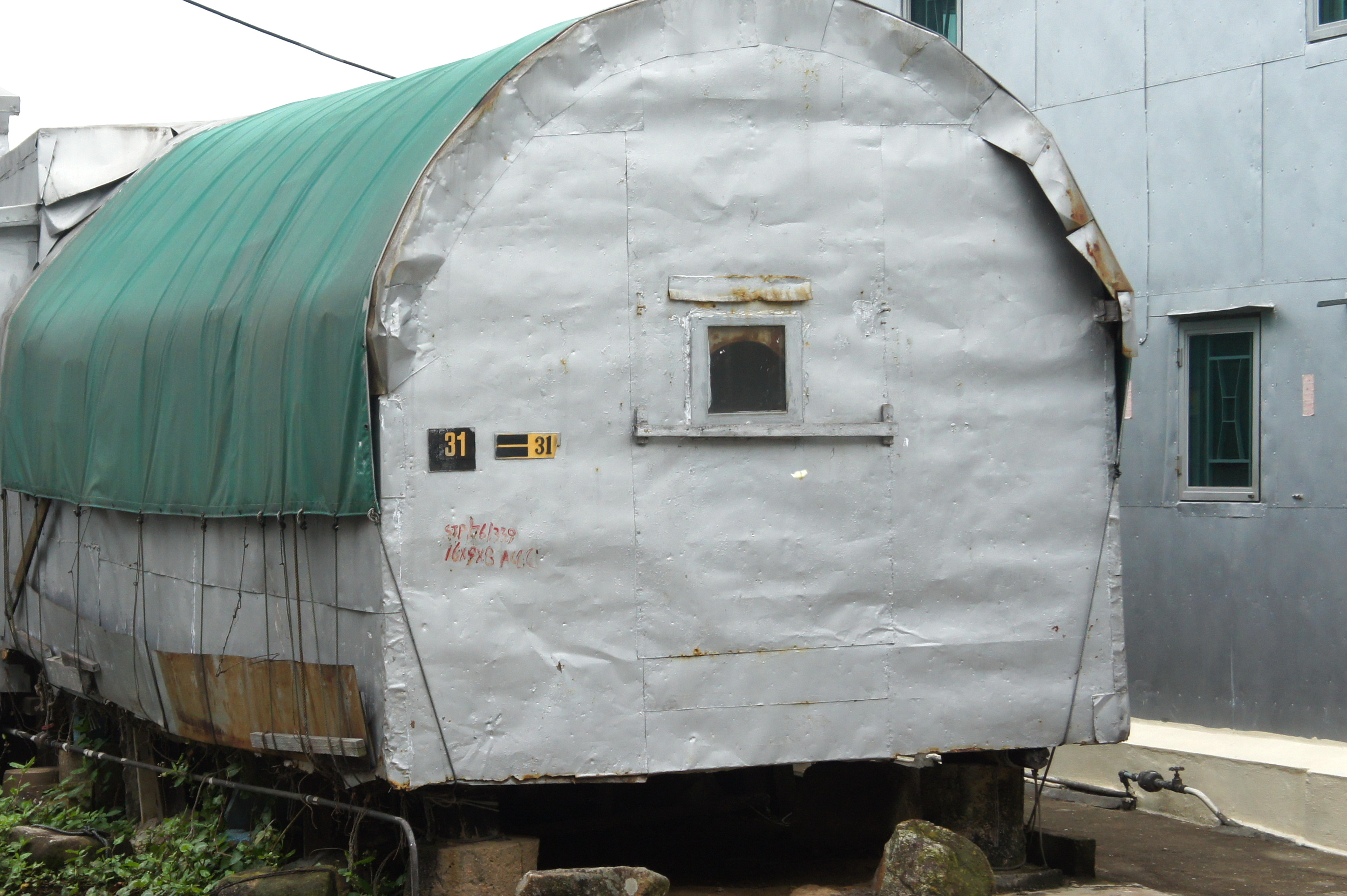 Tai O Pang Uk (shack house), Tai O, Hong Kong.